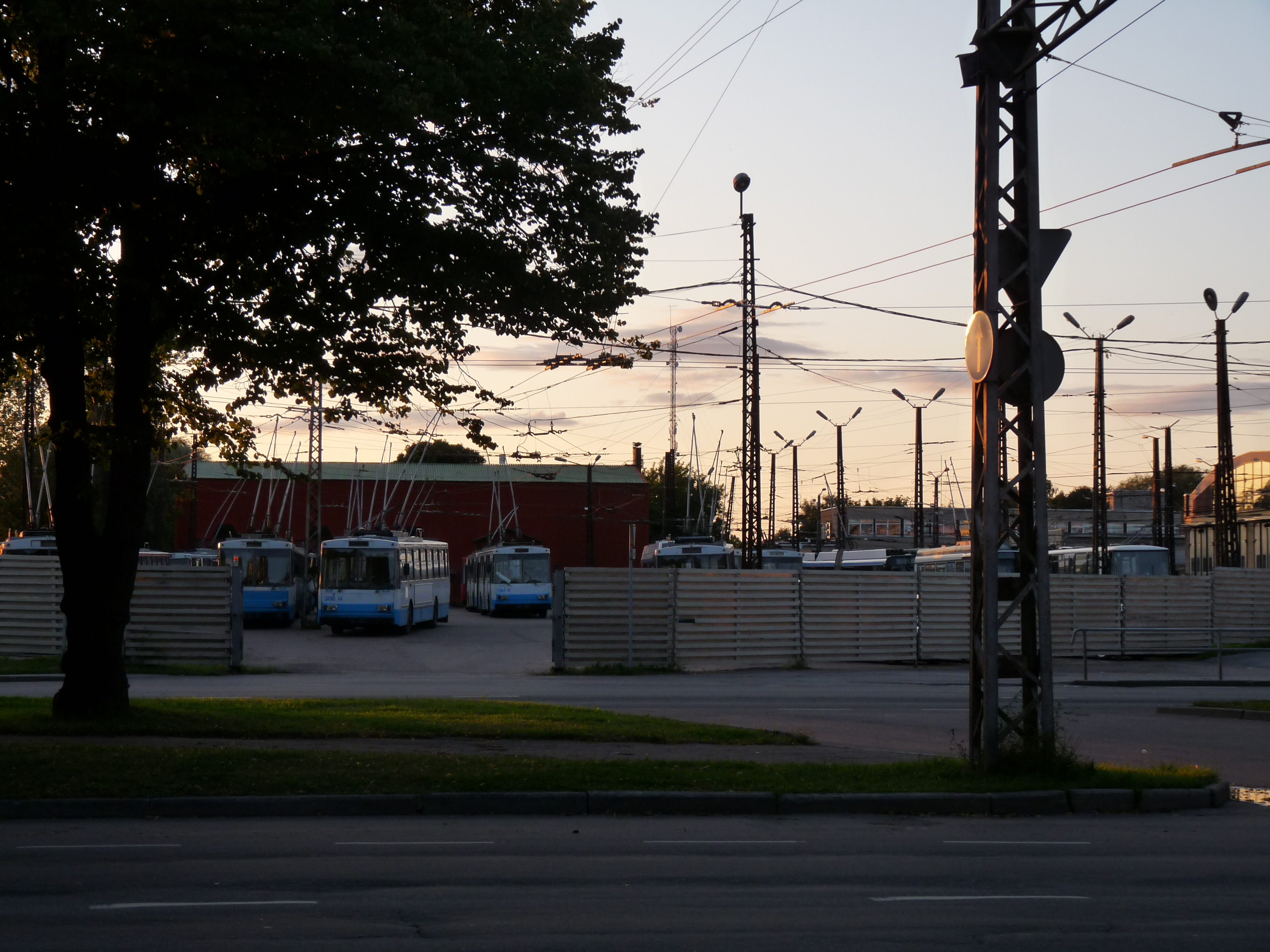 Trolleybuses service station in Tallinn